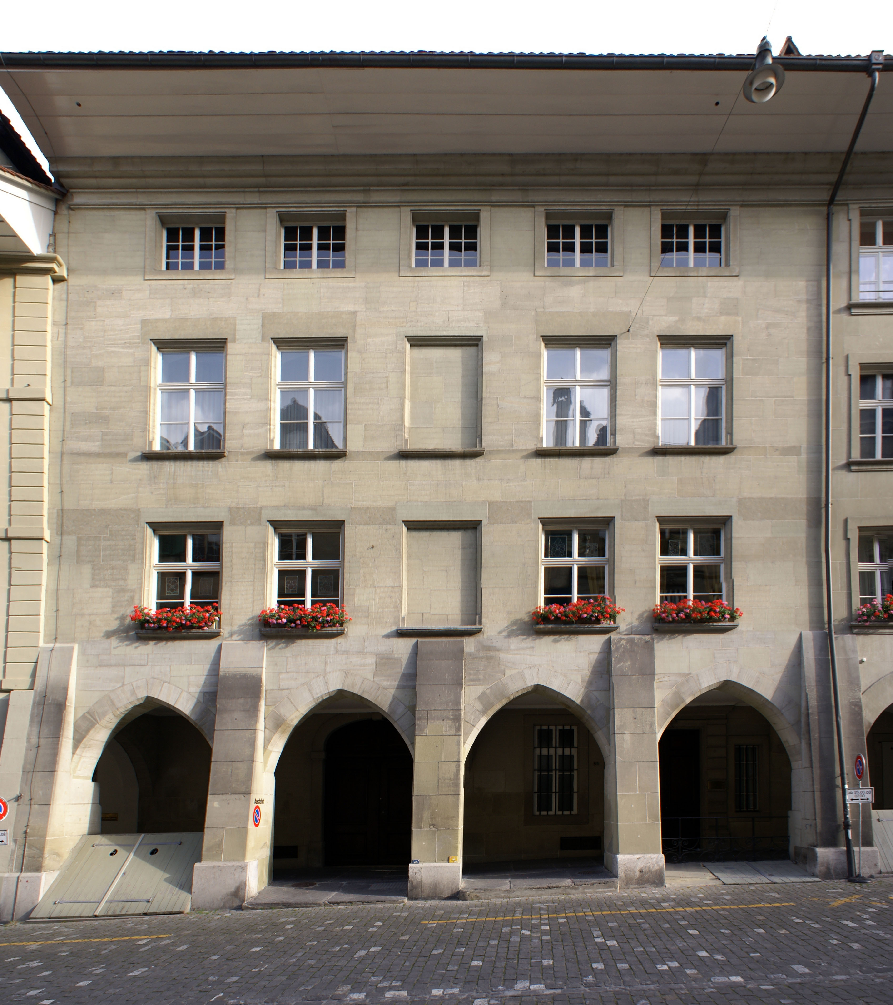 Junkerngasse 59, Berne, Switzerland; the Béatrice-von-Wattenwyl-Haus. Northern (street) face.